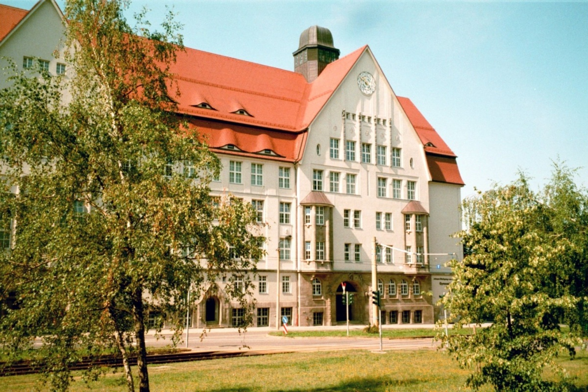 front of the Johann-Wolfgang-von-Goethe-Gymnasium Chemnitz